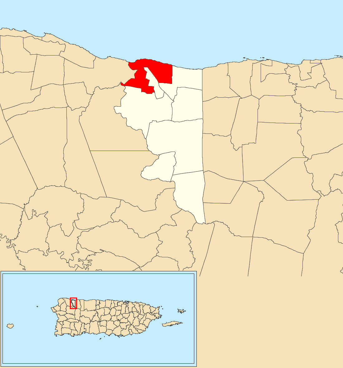 Terranova, Quebradillas, Puerto Rico locator map